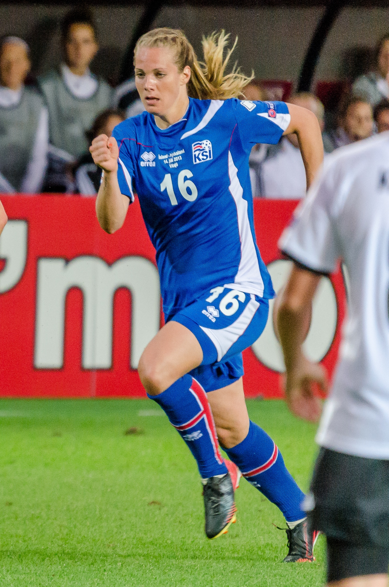 Icelandic football attacker Harpa Þorsteinsdóttir playing a Group stage game against Germany in the UEFA Women's Euro 2013 at Myresjöhus Arena in Växjö.